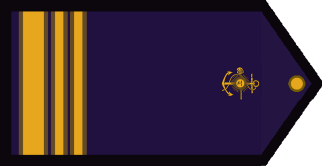 Rank insignia of a Chief Petty Officer of the Argentine Navy.